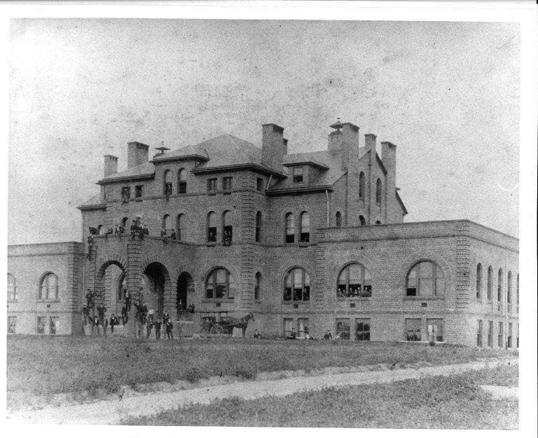 Title: North Carolina State College of Agriculture and Mechanic Arts President Alexander Q. Holladay, faculty, and first freshman class posing in front of the college's main building (later named Holladay Hall). Date: 1890. Classification Number: - UA023.05.045 Classification Group: Holladay Hall Item Number: 0000007 Subjects: - Universities & colleges - North Carolina State University -- Buildings - Holladay Hall (North Carolina State University) Geographic Location: United States -- North Carolina -- Wake County -- Raleigh Time Period: 1890s Genre: - Group portraits - Views Source of Title: Devised by cataloger, based on information from several sources. General Notes: From a copy of the oldest known photograph of North Carolina State University. Original available in University Archives Photograph Collection. Published in: North Carolina State University : a pictorial history / by Murray Scott Downs and Burton F. Beers. [Raleigh] : North Carolina State University Alumni Association, c1986. Medium: 1 photographic print : b&w ; 8 x 10 in. Digital format: image/tiff Digital format: 3221225472 Technical information: Scanned by NCSU Libraries Digital Media Lab; 01-Nov-2003; 1200 dpi; 8-bit; grayscale; Mac OS X operating system with an Epson Perfection 3200 PHOTO Scanner. Part of: University Archives Photograph Collection Repository: North Carolina State University Special Collections Research Center Raleigh, NC